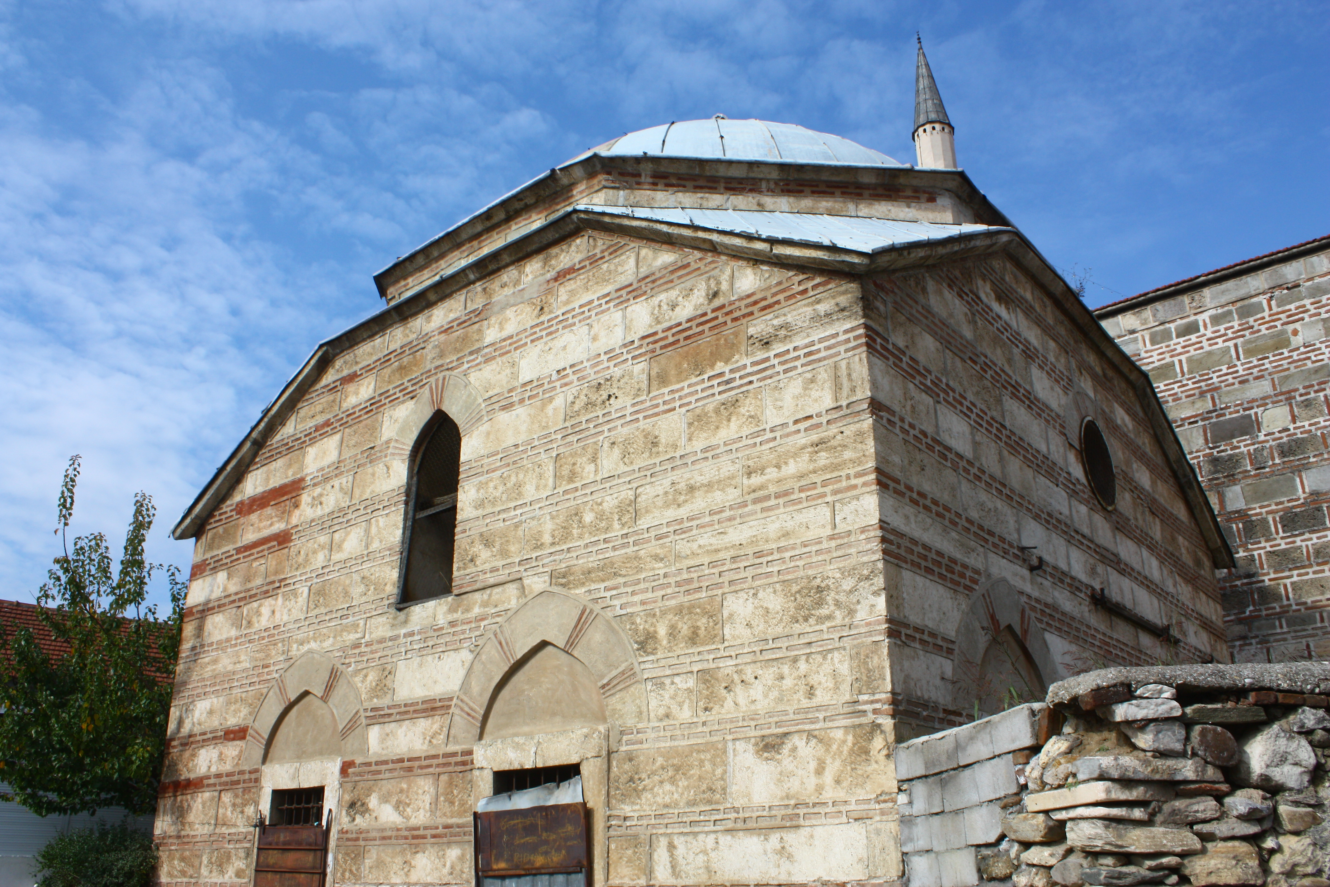 Clock Tower - Sultan Murat Mosque Macedonia Ова е фотографија на споменик на културата во Македонија со типски код: А02This is a a photo of a cultural monument in North Macedonia with type id: А02